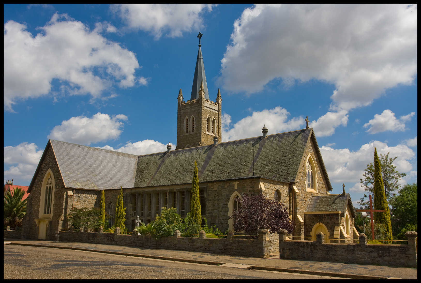 Young- Church